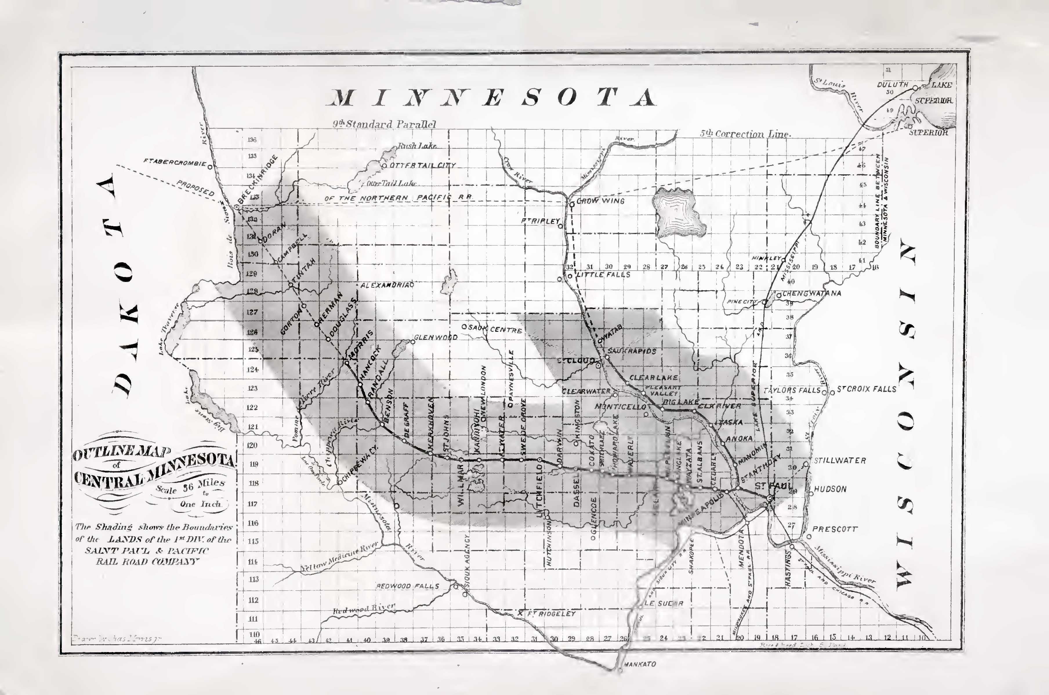 Outline Map of Central Minnesota showing the land grants and the route of the First Division of the Saint Paul and Pacific Railroad, a predecessor of the Great Northern Railroad.